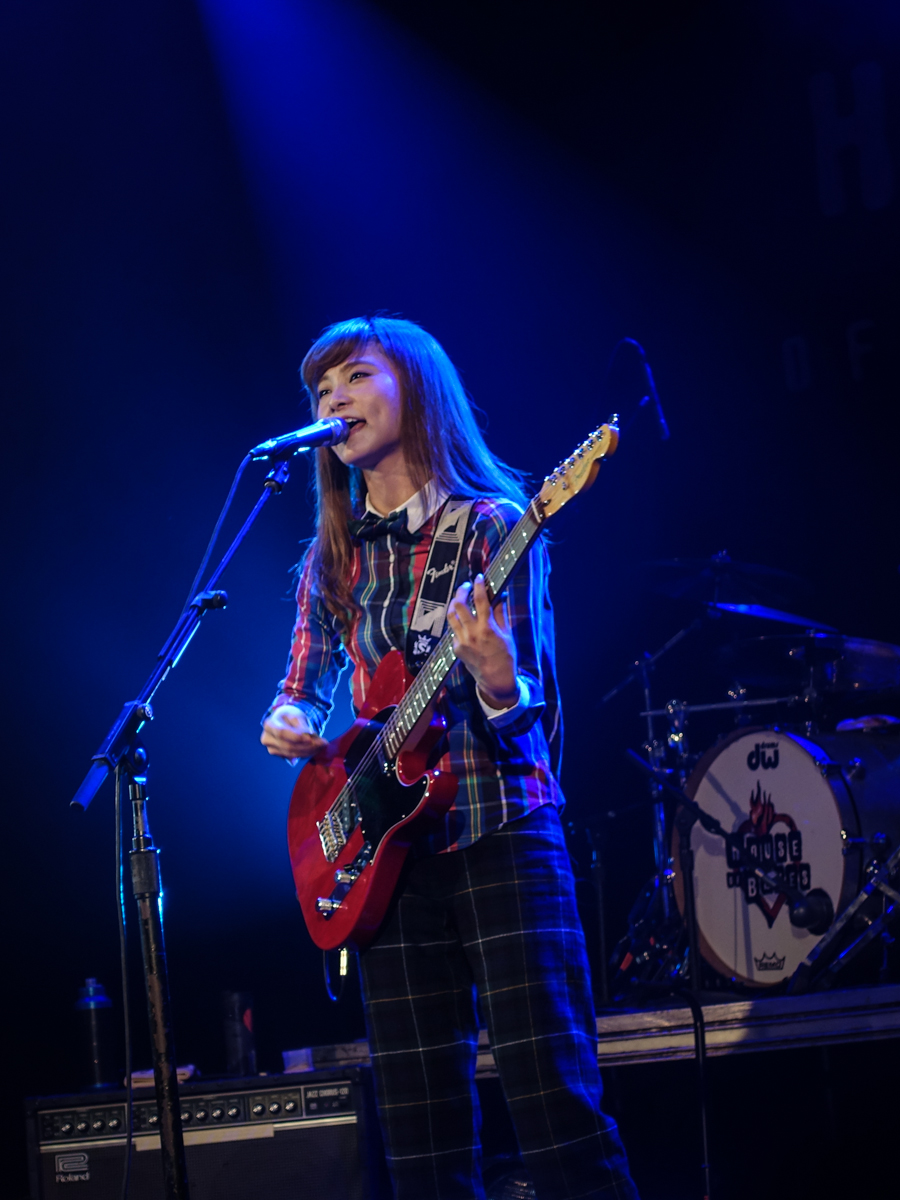 SCANDAL